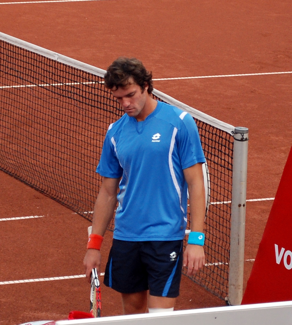 Russian tennis player Teimuraz Gabashvili at the 2008 BCR Open Romania in Bucharest